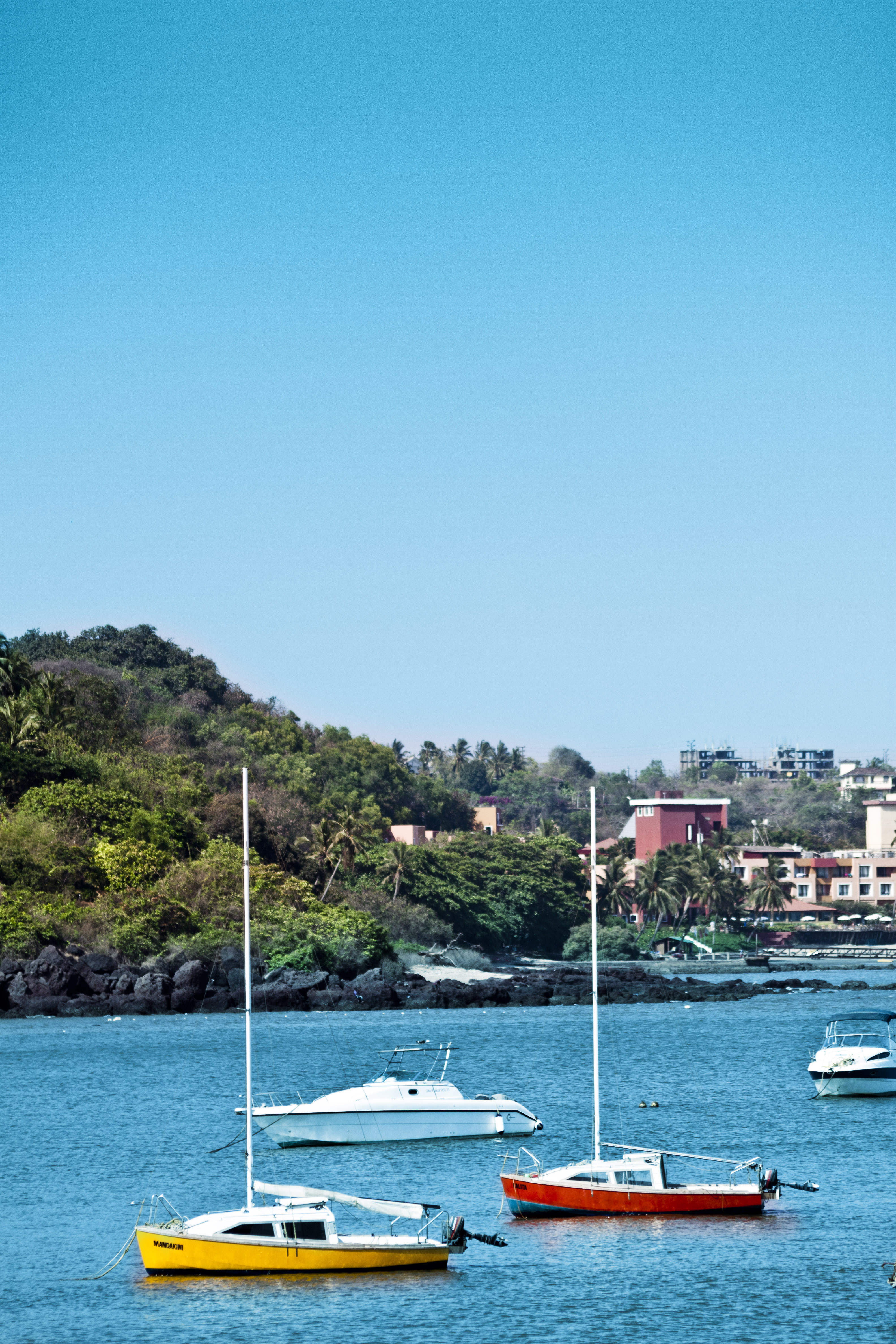 Boats at a tourist/leisure spot, Donna Paula, Goa.